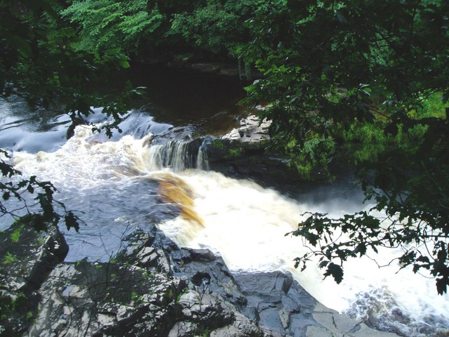 Stonebyres Falls A view of the falls from about 20mtrs above, on the cliff edge just off the Clyde Walkway.